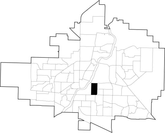 A map showing the location of the Varsity View neighbourhood in relation to the other neighbourhoods in Saskatoon.